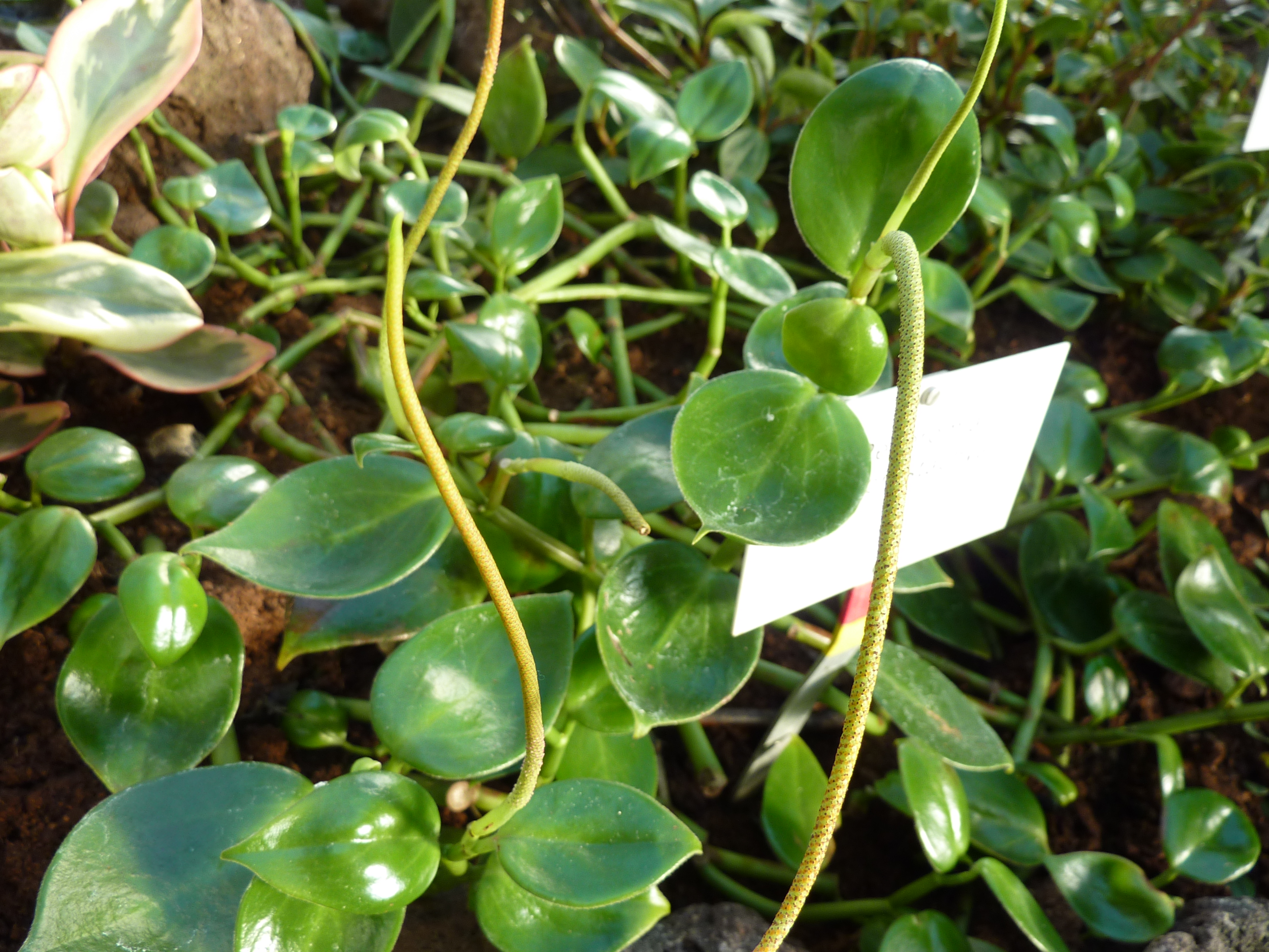 Peperomia macrostachya in the Botanical Garden, Berlin